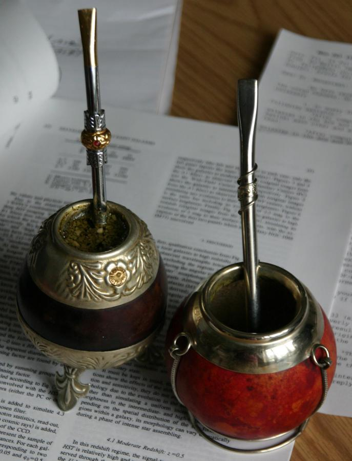 Felipe Menanteau